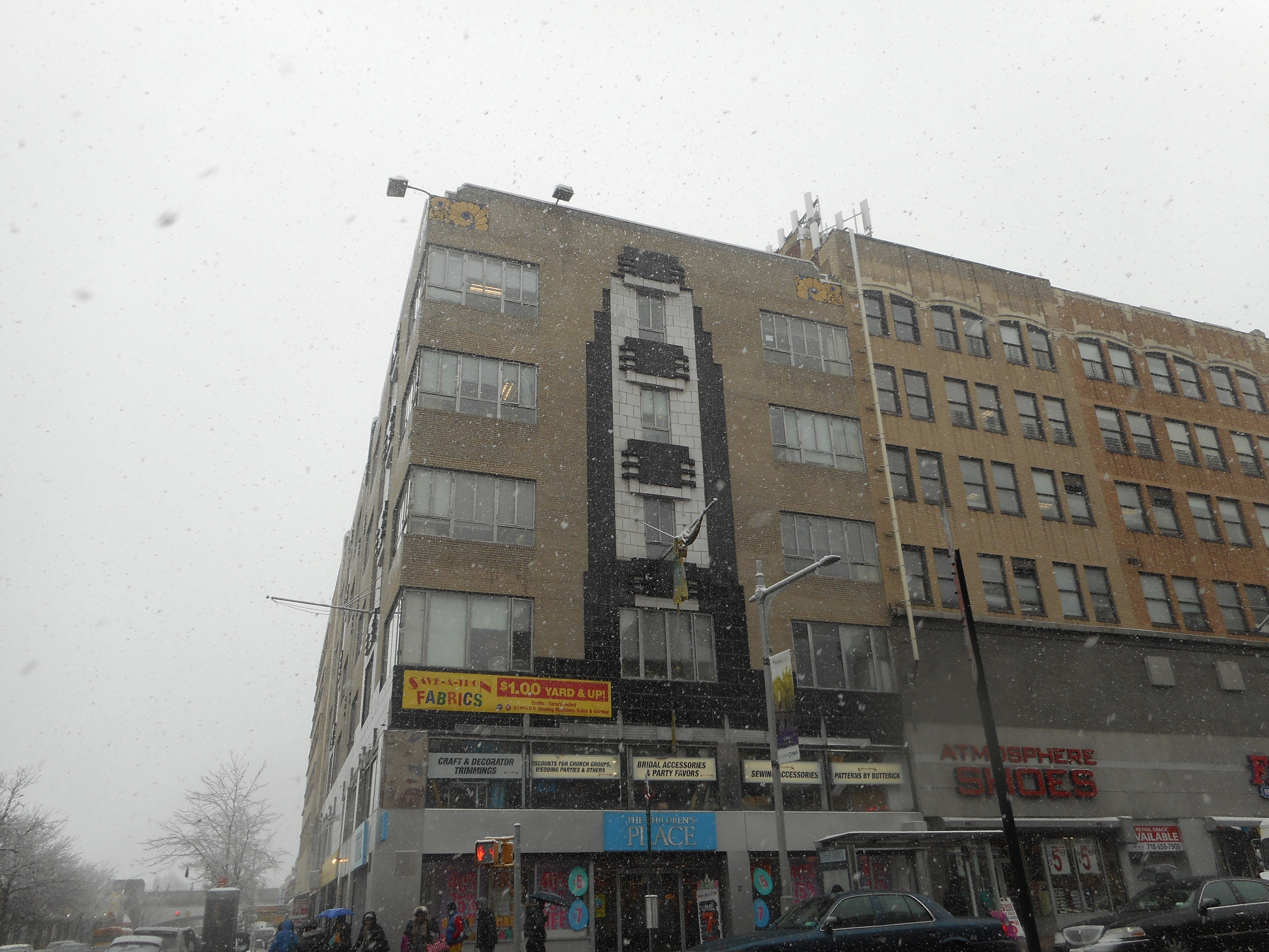 The NRHP listed J. Kurtz and Sons Store Building on the southwest corner of Jamaica Avenue and Guy R. Brewer Boulevard in the Jamaica section of Queens, New York City. This shot is an attempt to show some of the Art Deco features, although I'm not sure I can consider those decorations on the upper corners of the building to be Bas-relief.